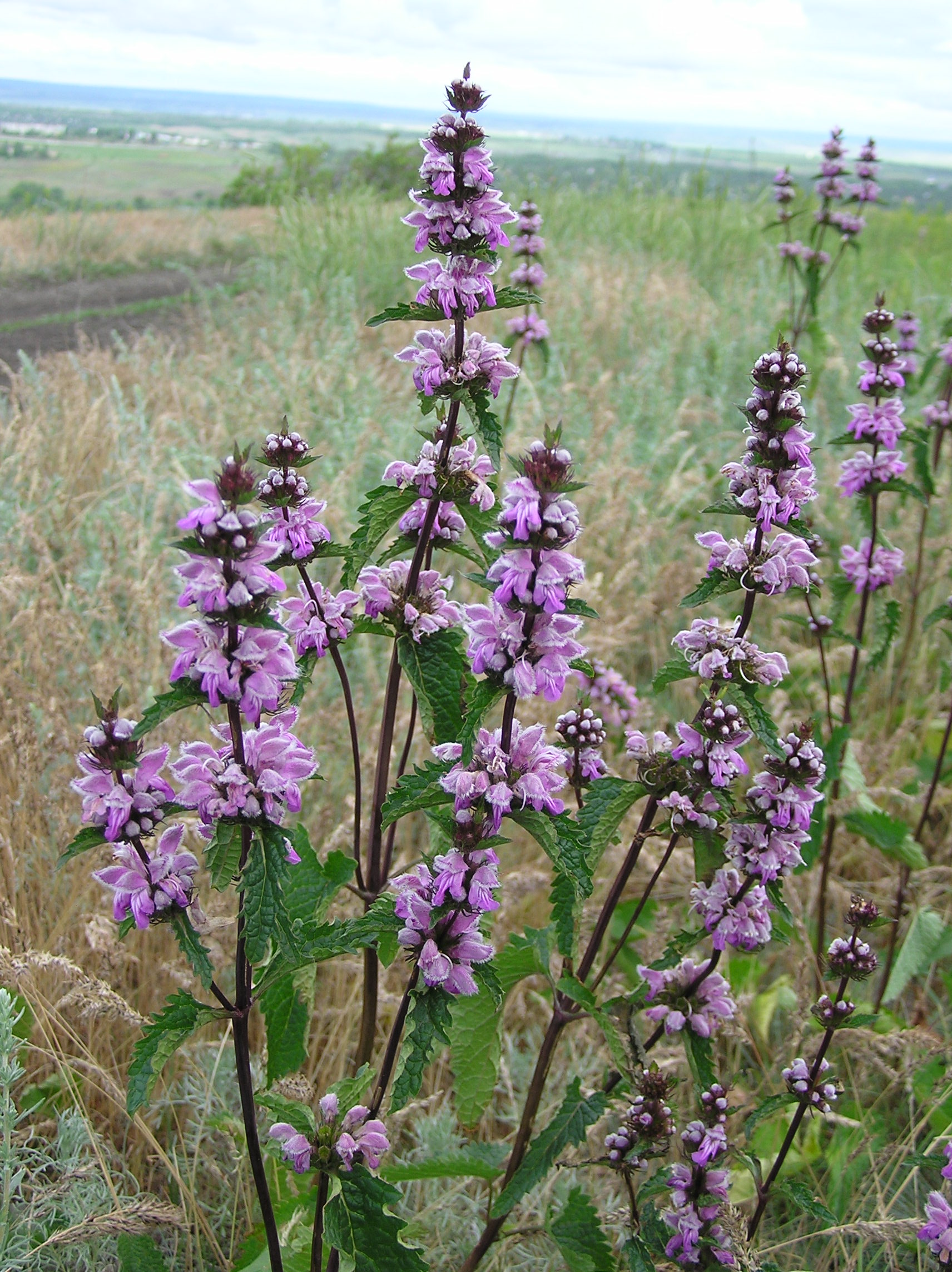 Phlomis tuberosa L. (syn.: Phlomoides tuberosa (L.) Moench). Habitat: meadow steppe on a hilltop. Vicinity of Saratov city, Russia.